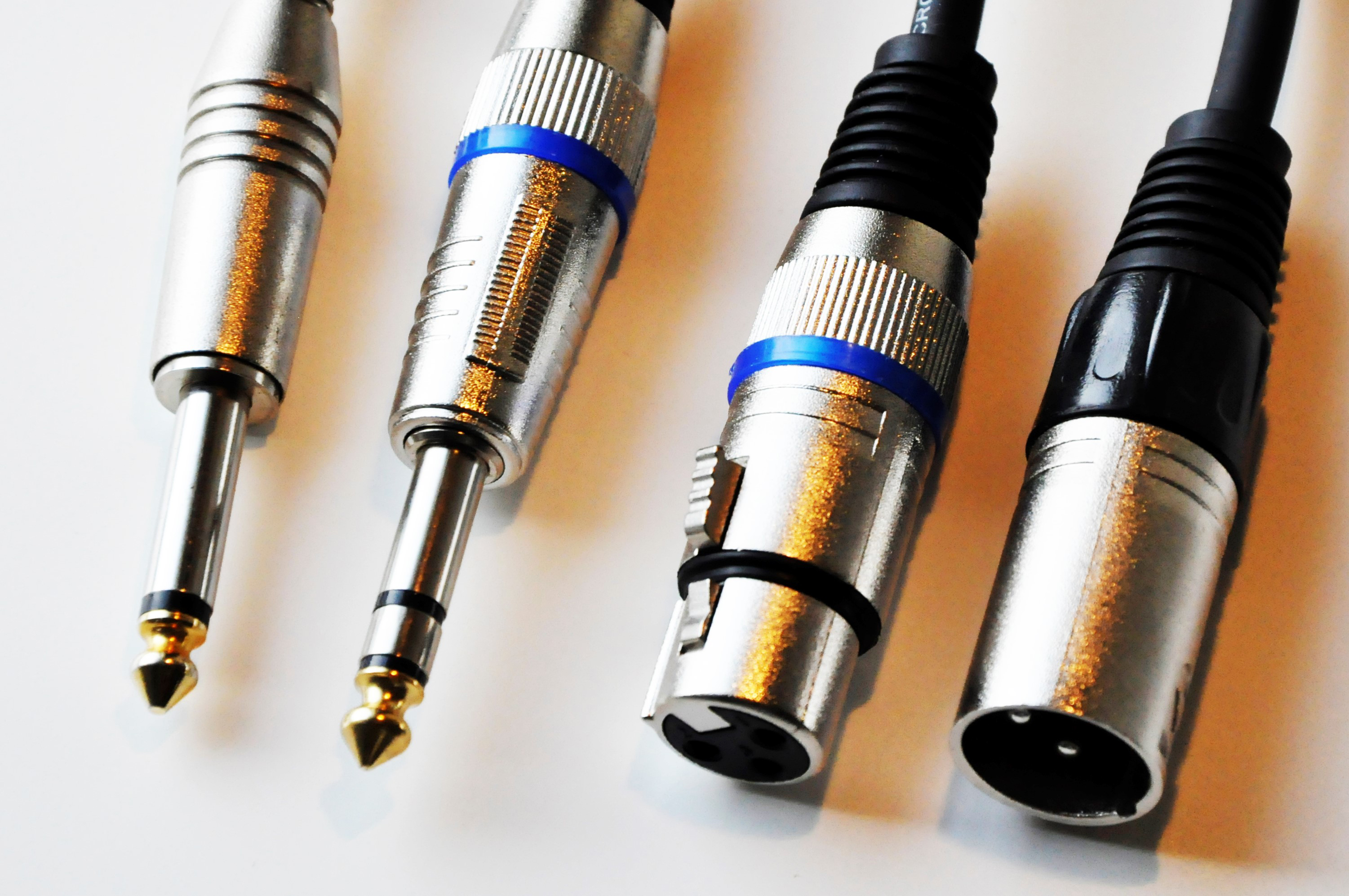 Unbalanced Jack + Balanced Jack + XLR female and male